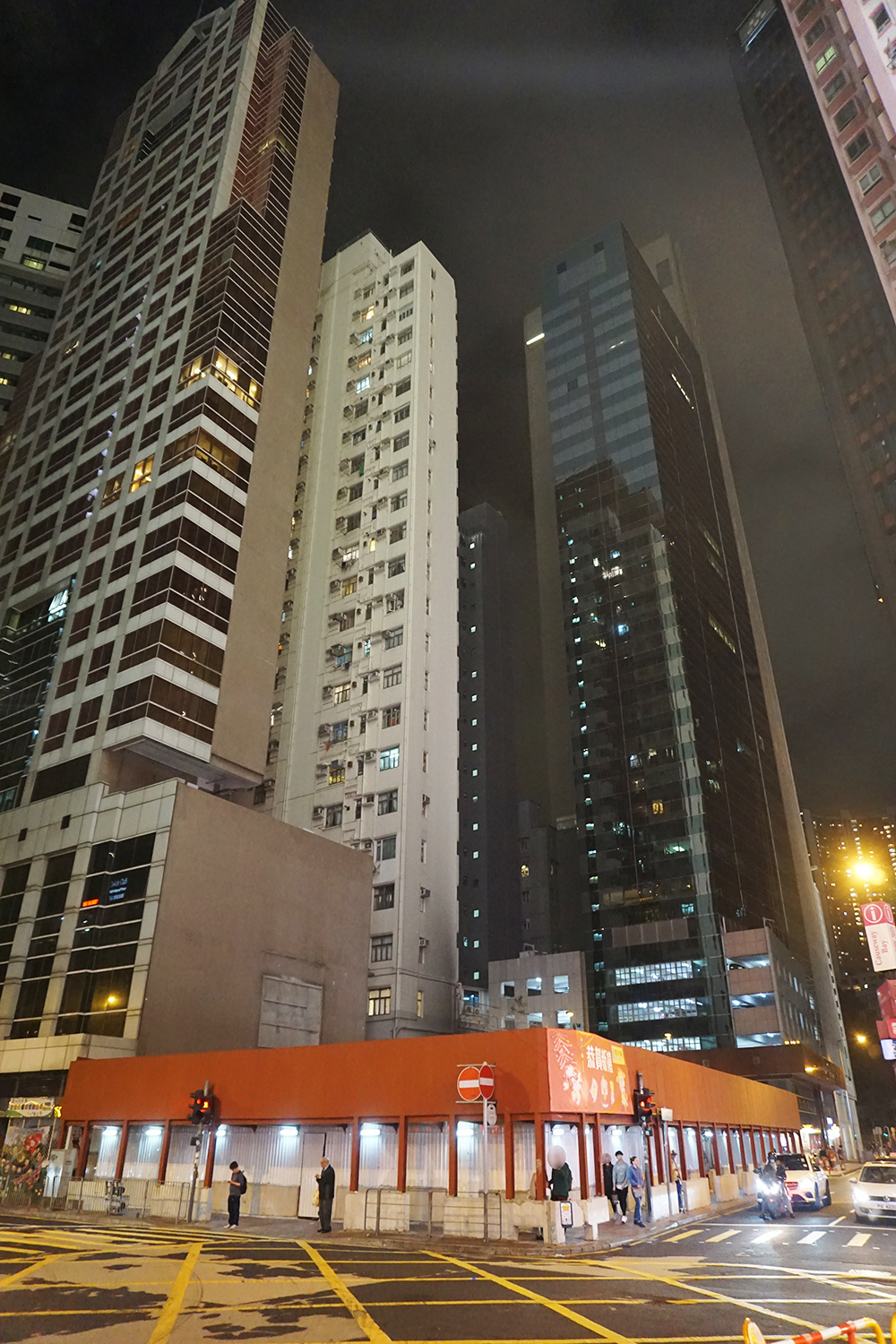 Former J Plus Boutique Hotel in Causeway Bay, Hong Kong.